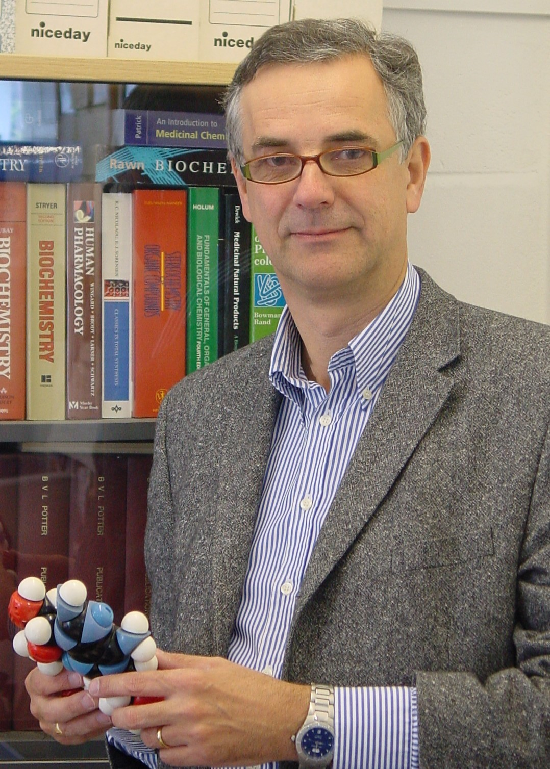 Barry Potter with a molecular model of a biological second messenger at the University of Bath, UK